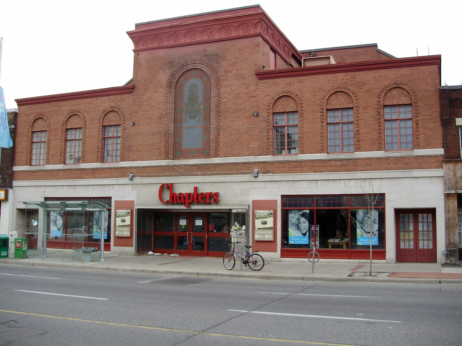 The Runnymede Theatre in Toronto, Canada. Built in 1927 as a vaudeville playhouse, the building then housed a Chapters bookstore. While the structure of the theatre remains, it has since been replaced by a Shoppers Drug Mart.